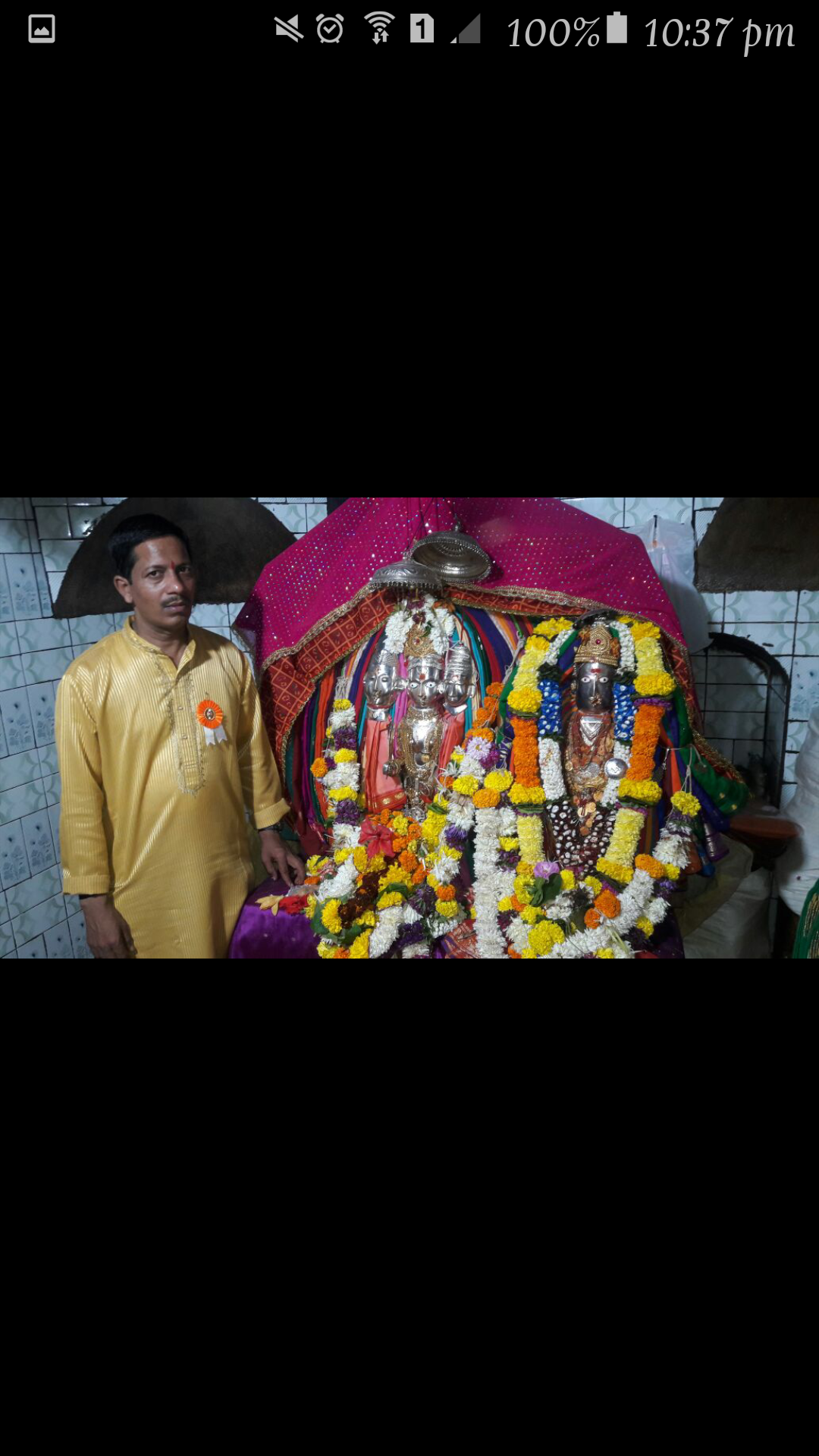 aryadurga navdurga